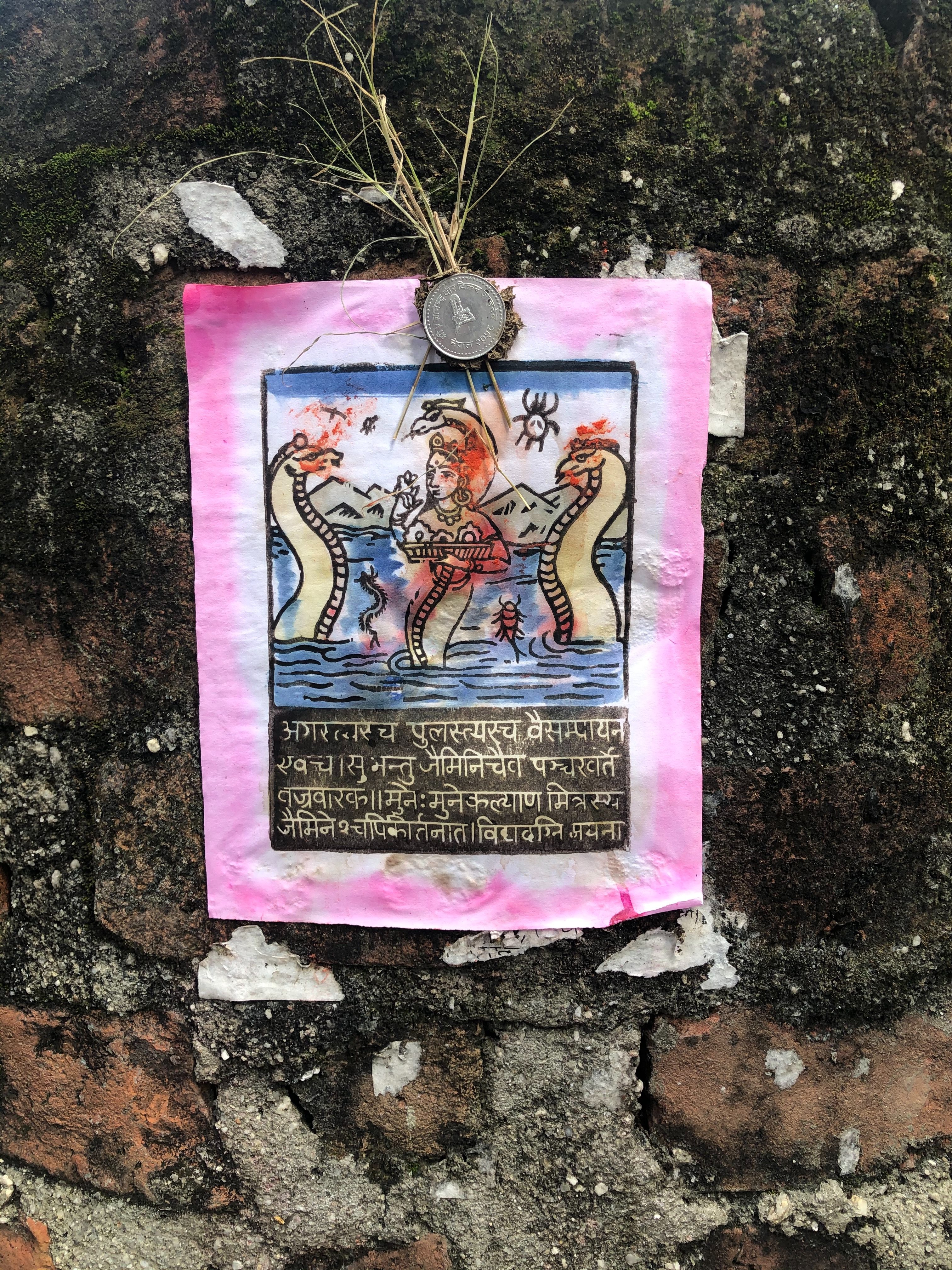 Sticker of nagpanchami